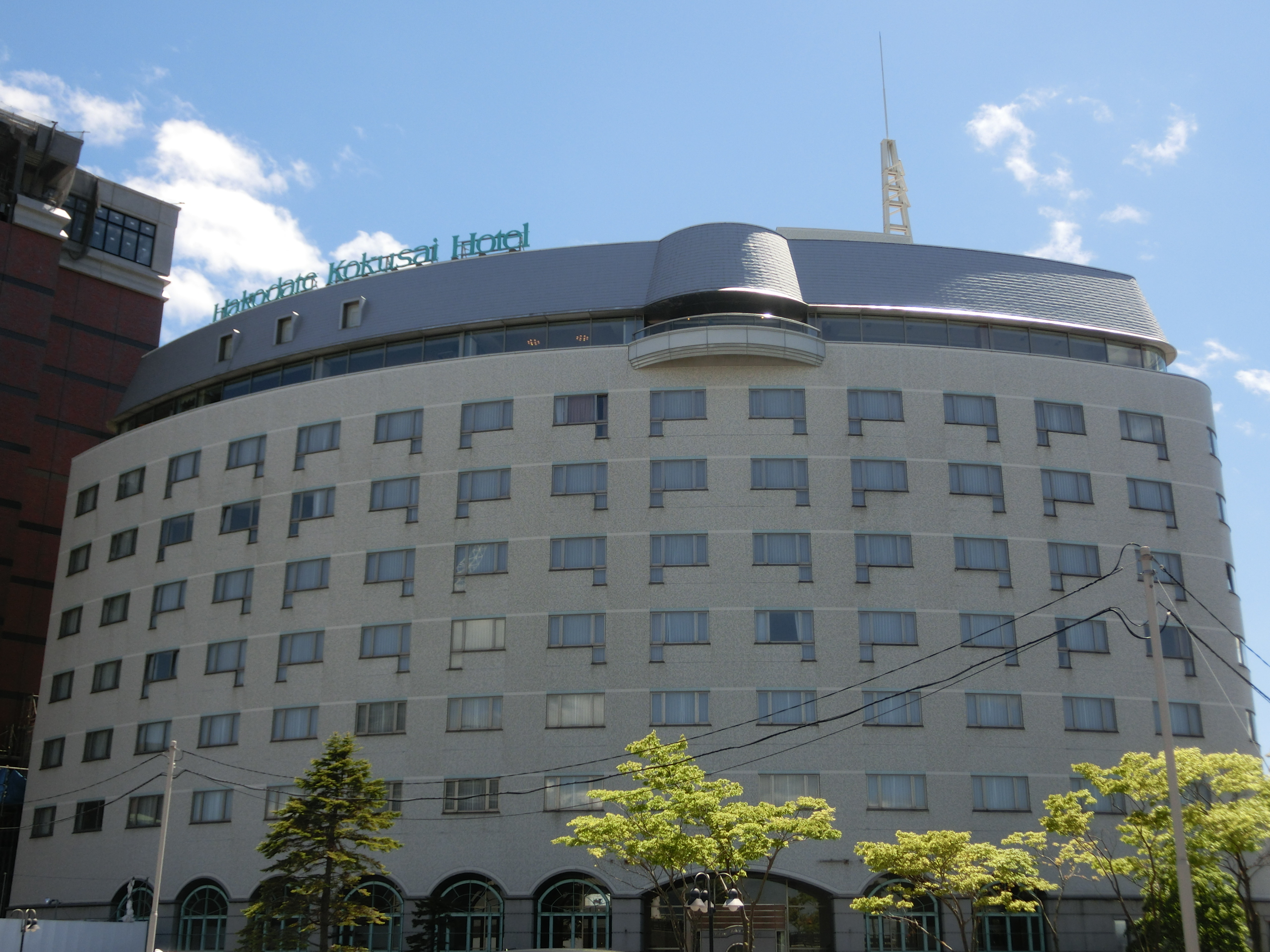 Hakodate Kokusai Hotel